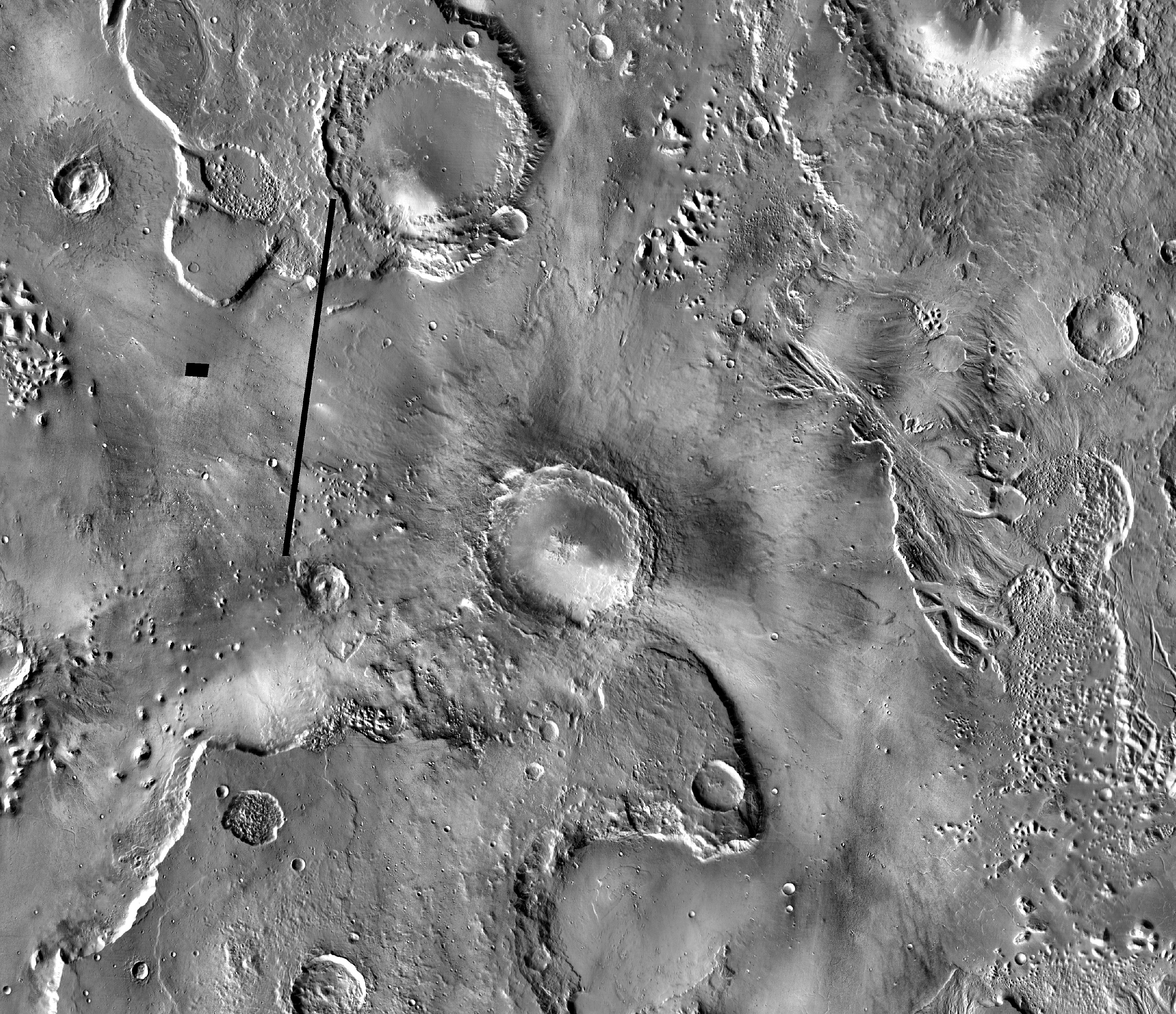 View of the 58 km diameter crater Mojave (at center) and its surroundings in the Xanthe Terra region of Mars. Mojave is estimated to be only 3 million years old, the youngest crater of its size on the planet, and is hypothesized to be the source of the shergottite meteorites found on Earth. This is from a mosaic (version 11.5) of THEMIS daytime infrared images of Mars. North is at the top. The original NASA image has been modified by sharpening. Some of the features in this image have been annotated in Wikimedia Commons.